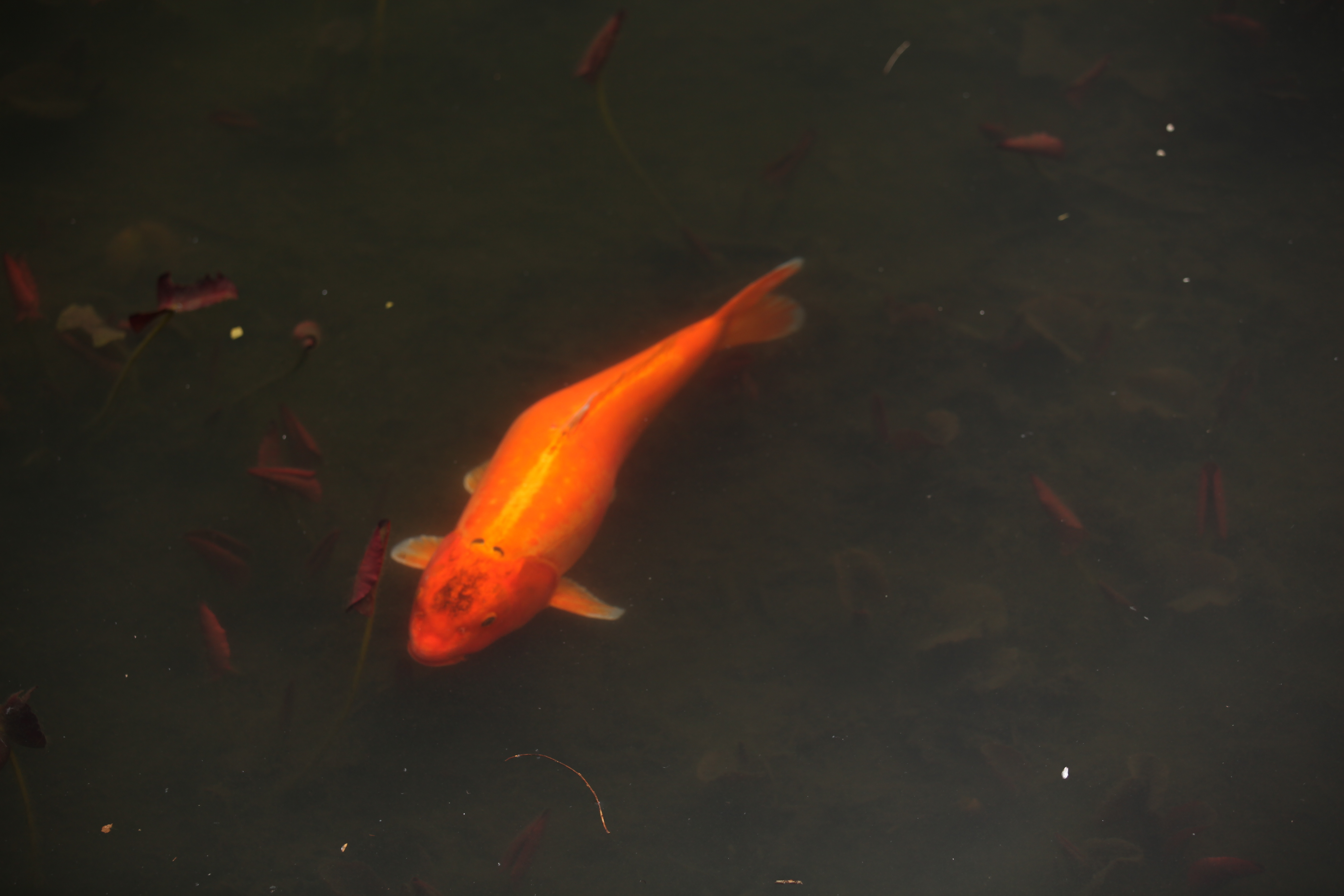 Dr. Sun Yat-Sen Park in Vancouver Chinatown